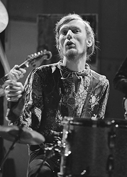 Eric Clapton (right) playing with Cream on the Dutch television show Fanclub in 1968